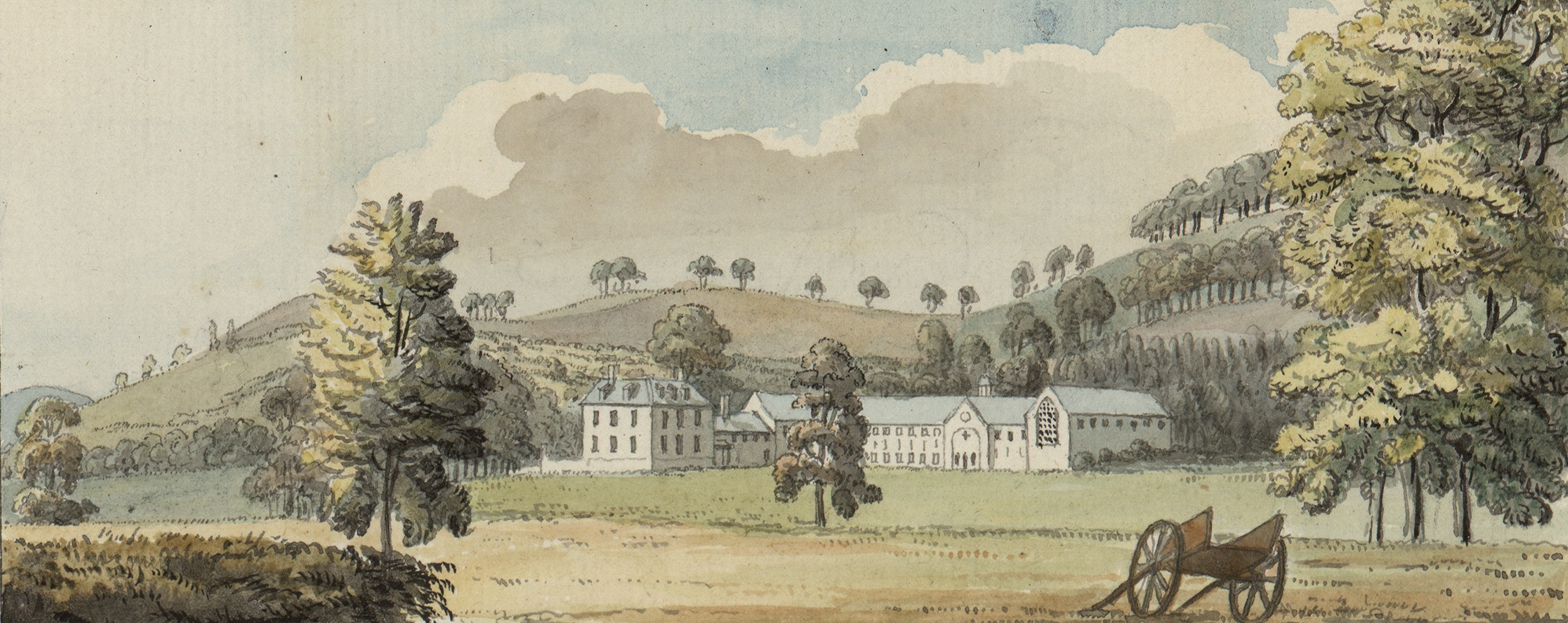 An image from a set of 8 extra-illustrated volumes of A tour in Wales by Thomas Pennant (1726-1798) that chronicle the three journeys he made through Wales between 1773 and 1776. These volumes are unique because they were compiled for Pennant's own library at Downing. This edition was produced in 1781. The volumes include a number of original drawings by Moses Griffiths, Ingleby and other well known artists of the period. Thomas Pennant (1726-1798)